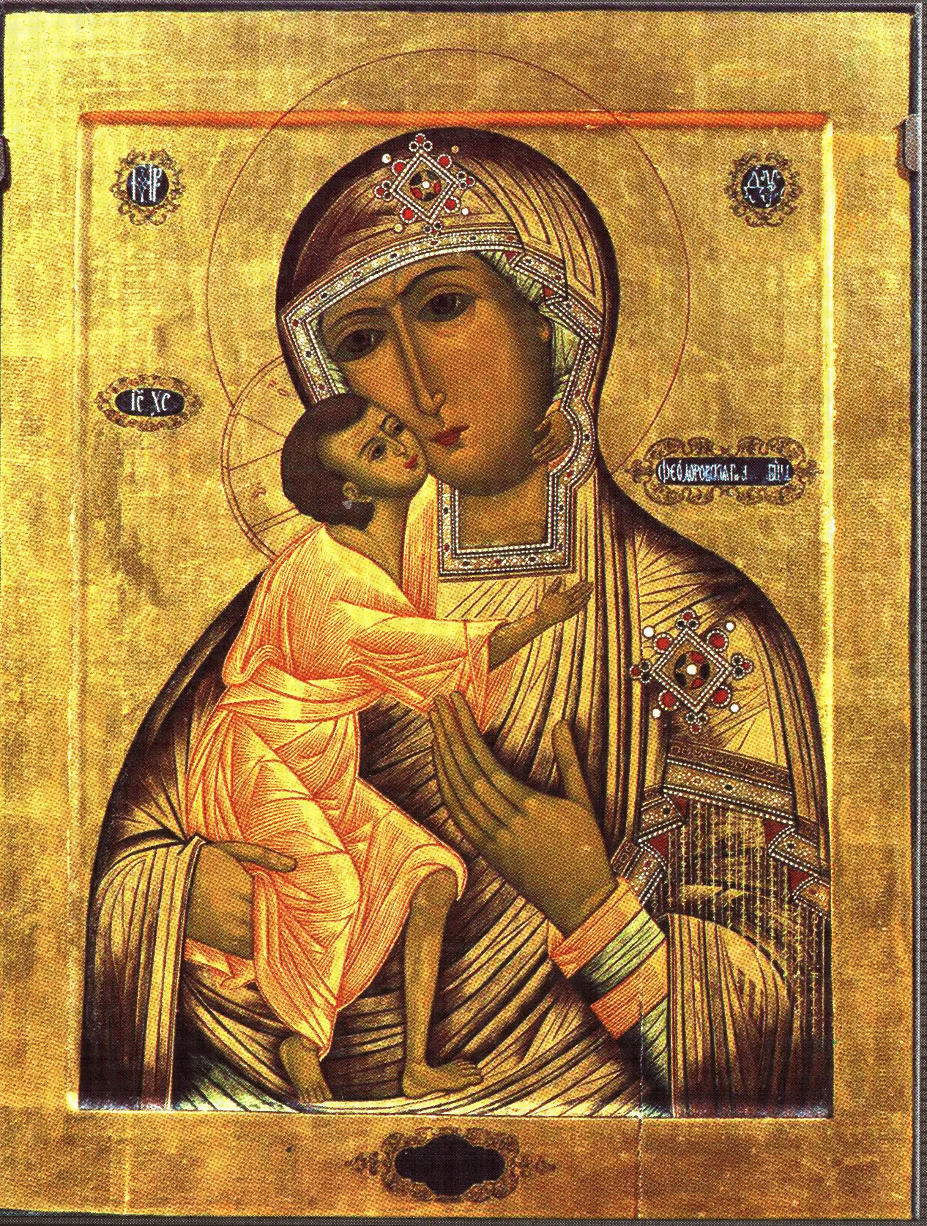 Feodorovskaya Russian icon.